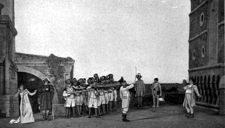 Illustration of the execution of Cavaradossi from the opera Tosca